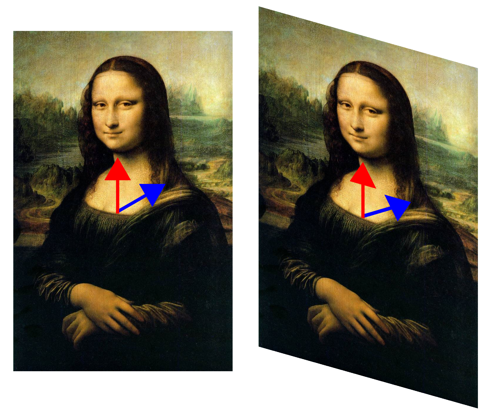 On the left, a reproduction of the Mona Lisa with a representation of two vectors superimposed on top of it. The red arrow represents a vector in three dimensions pointing directly up on the plane of the painting and the blue arrow represents a unique arbitrary vector on the painting. On the right is the result of a shear transformation on the image on the left. The blue arrow now represents a different vector, while the red one still represents the same vector. For this reason, the red vector is an eigenvector of the transformation, and the blue vector is not.